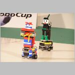 Picture of RobocupJunior Dance competition - Robocup 2004 source: self-made